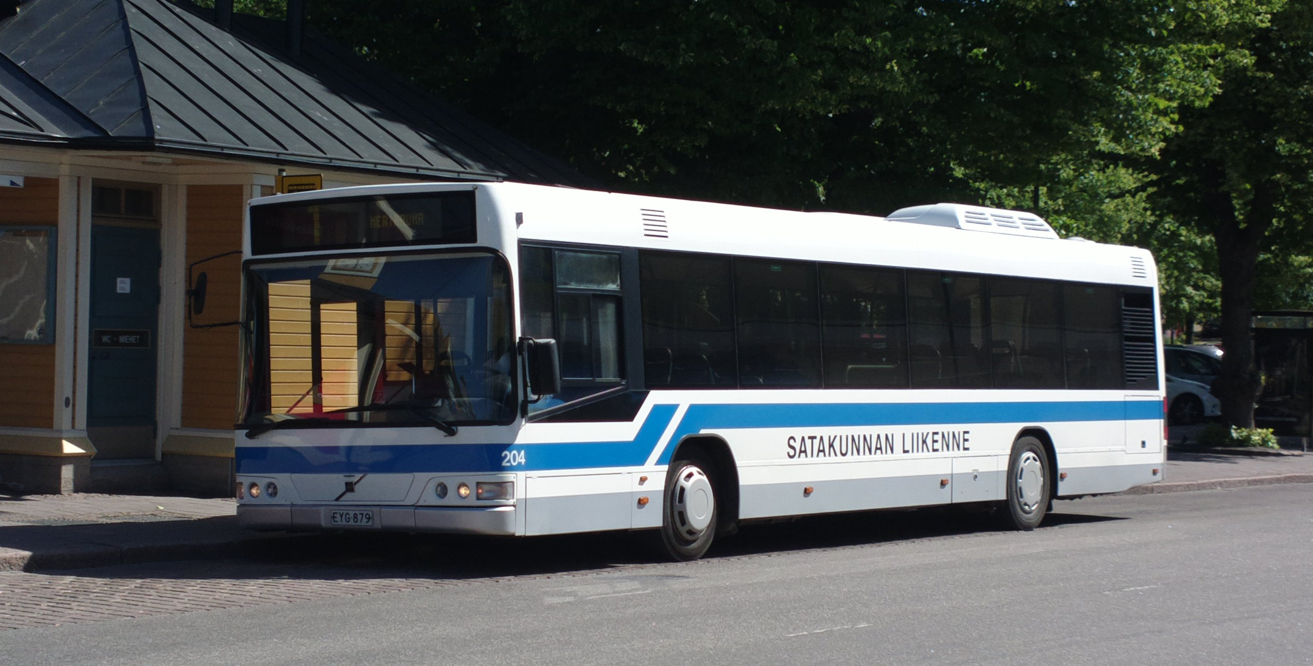 City buss of Satakunnan Liikenne in Rauma